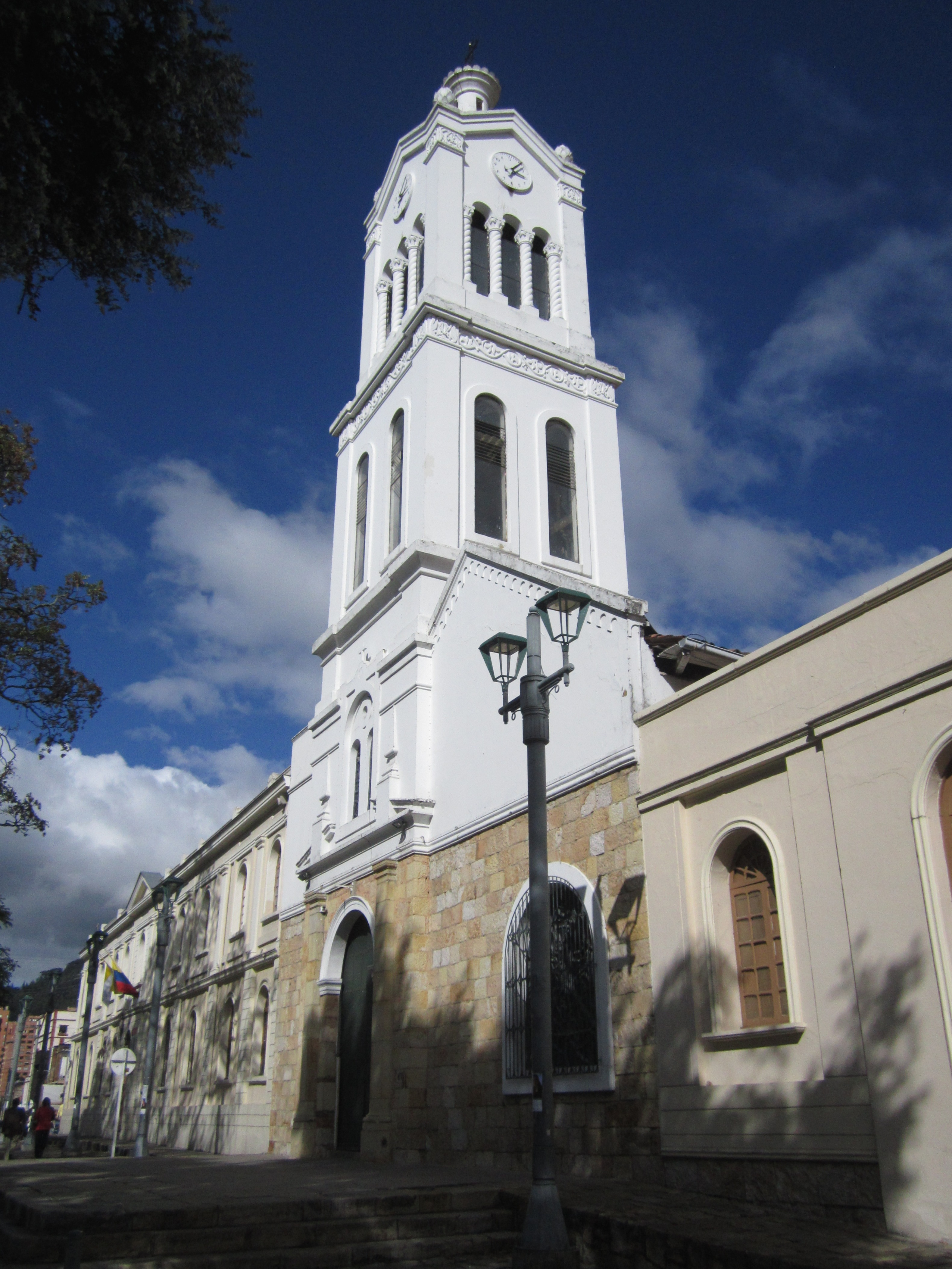 Bogotá